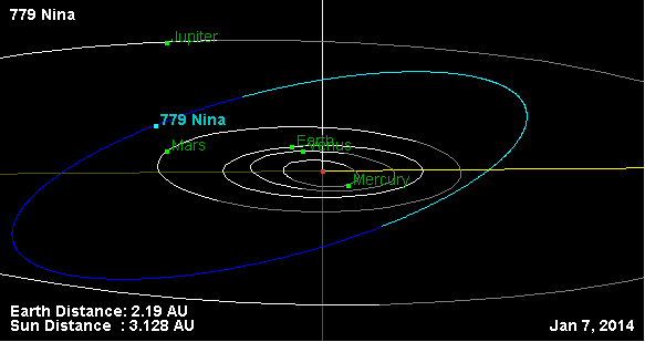 This diagram illustrates the orbit of the Main-belt asteroid 779 Nina.